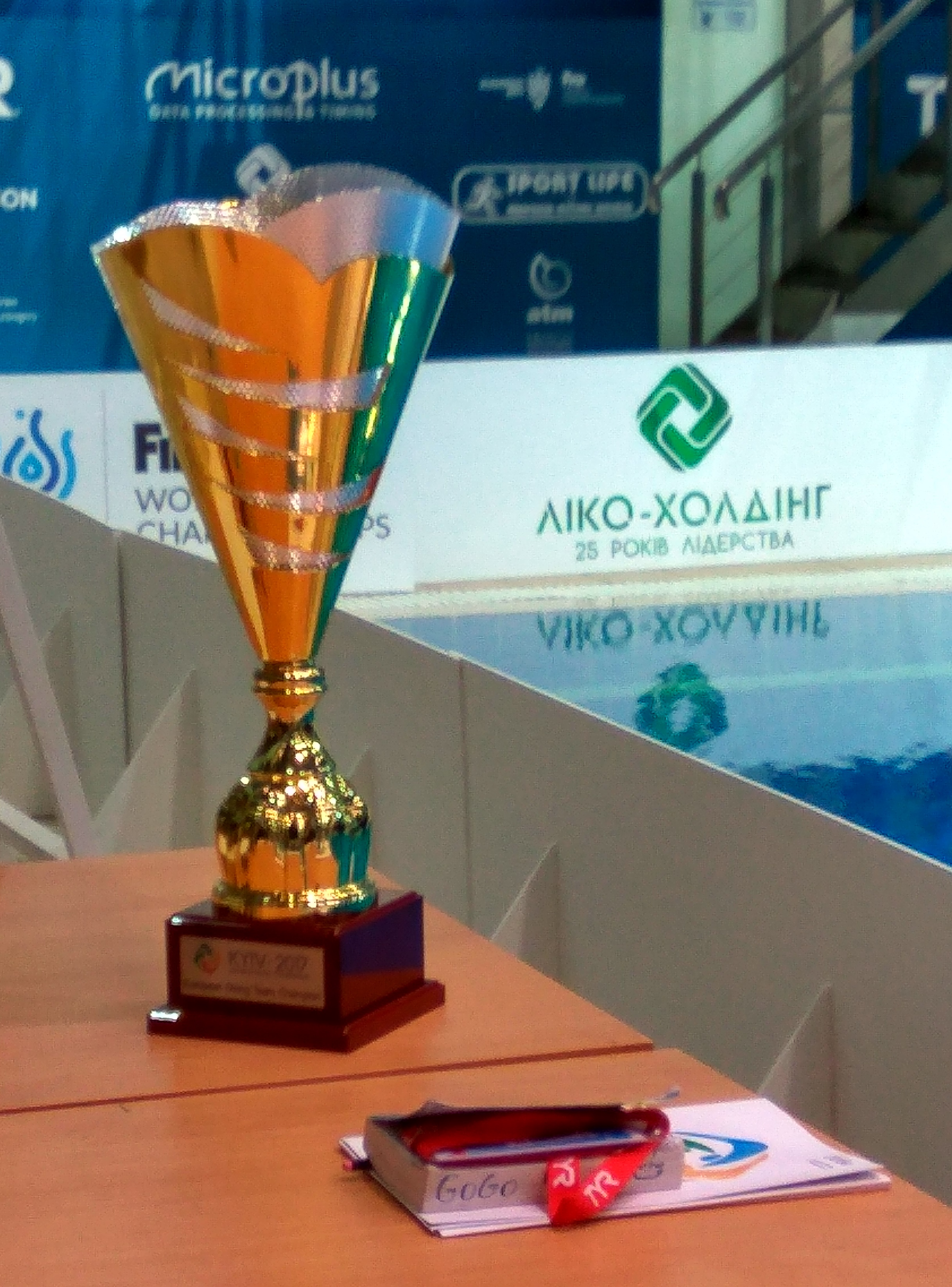 The Cup for the winners of the European Diving Championships. Kyiv, June 18th, 2017.